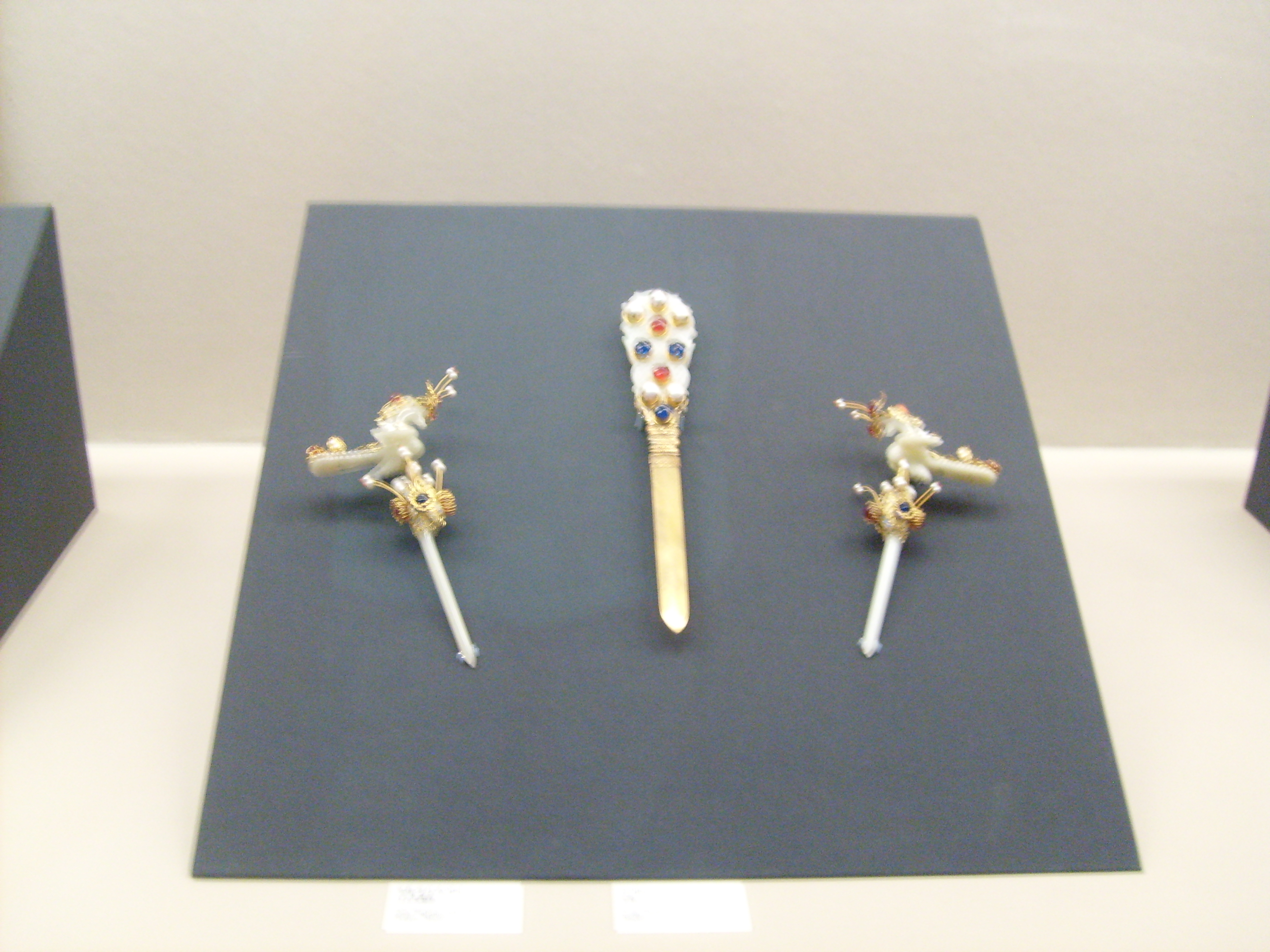 Binyeo, ornaments for women fastening hair. The picture is Binyeo for queen with gold and phonix shape.